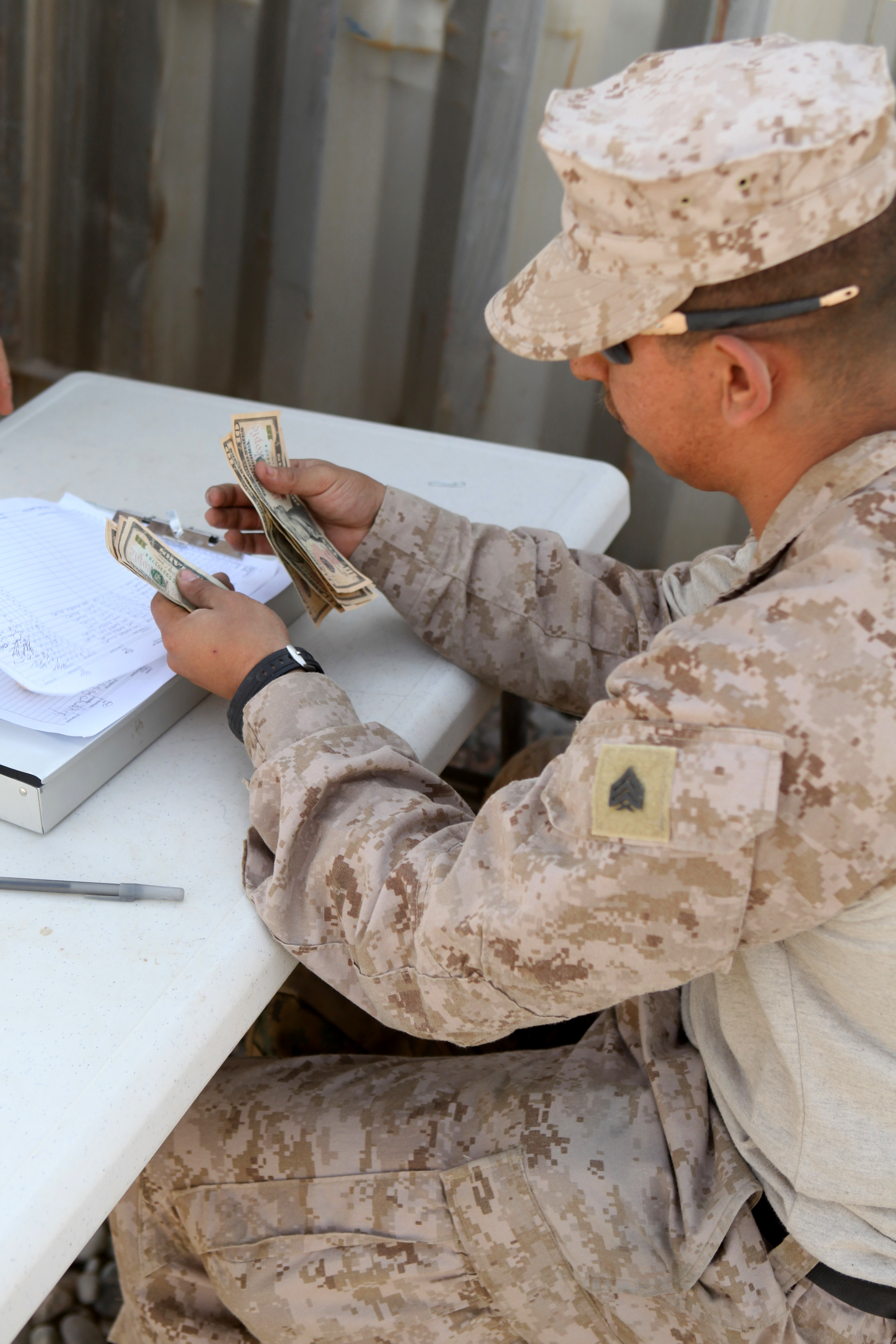 Sgt. Mario Sanchez, a disbursing technician with 1st Marine Logistics Group (Forward), counts money to give to a Marine at Forward Operating Base Shukvani, Afghanistan, May 18. While on a WES Team mission, the disbursing technicians take down information from service members who would like to get cash. Once the correct information is given, Marines are able to take an advance on their upcoming paycheck.